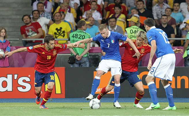 Jordi Alba, Ignazio Abate and Fernando Torres at Euro 2012 final Spain-Italy